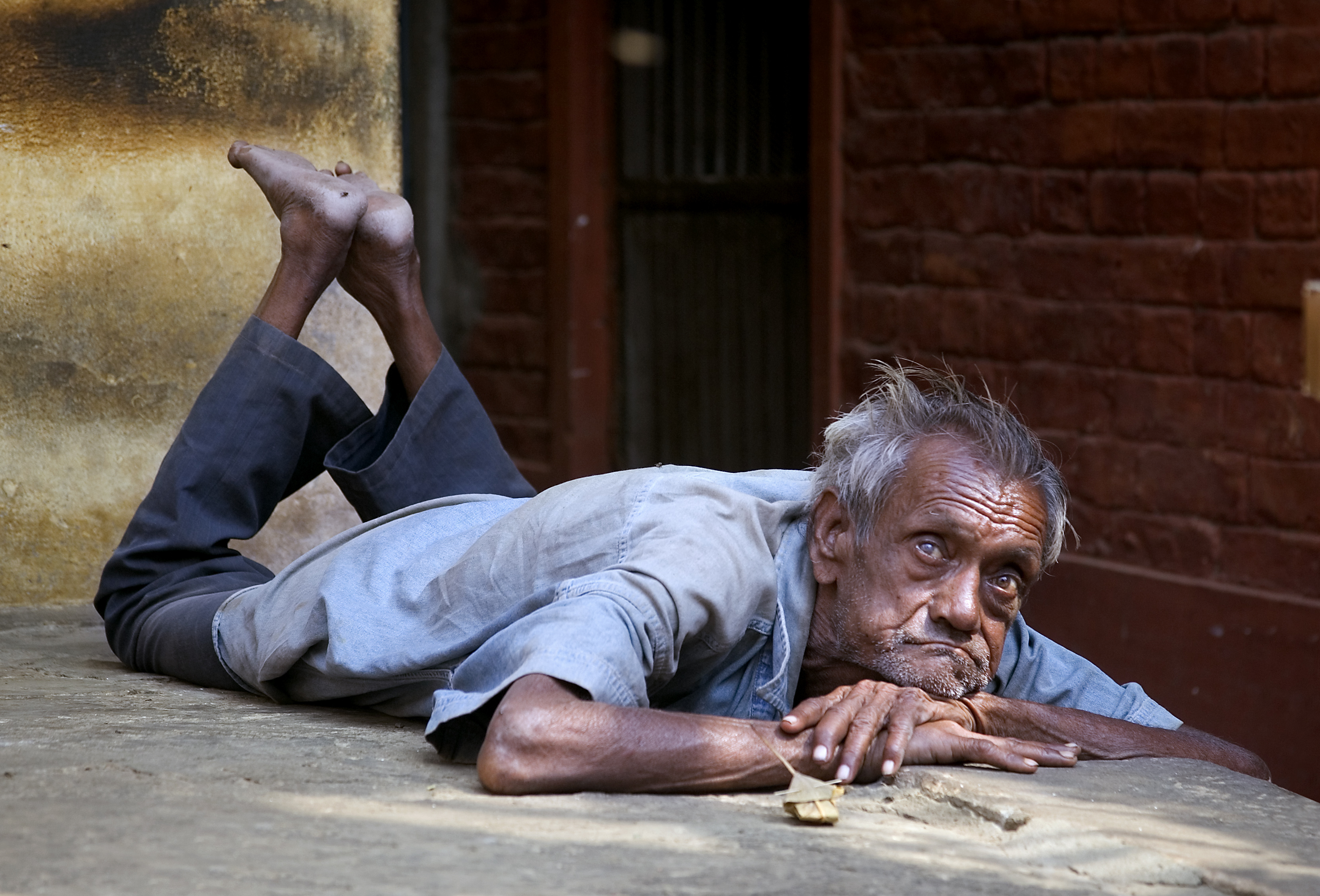 Old crazy man lying on the street Varanasi Benares India